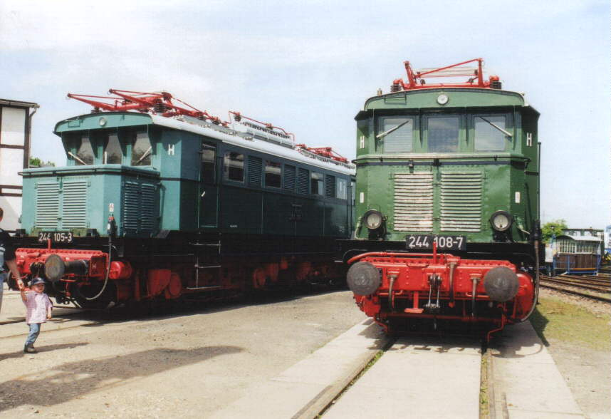 244 105 and 108 during an exhibition at Weimar, Germany